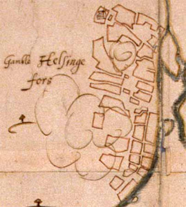 A map of Vanhakaupunki, Helsinki, Finland, 1645.